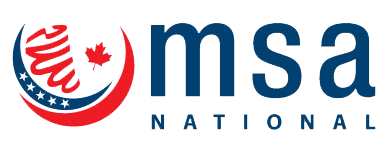 MSA National Logo